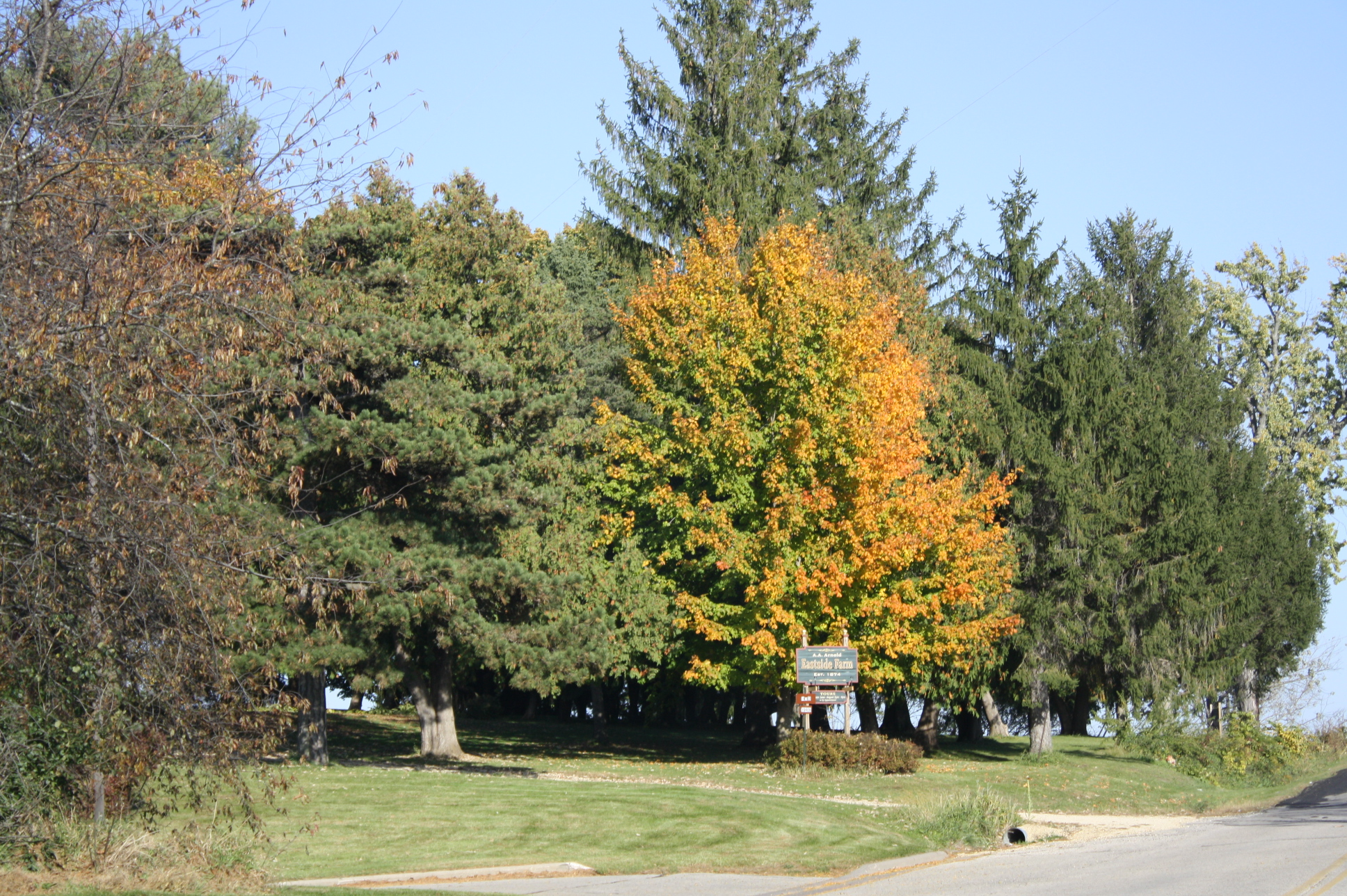 An overview of the site at the Alexander Arnold Farm. The site is listed on the National Register of Historic Places.